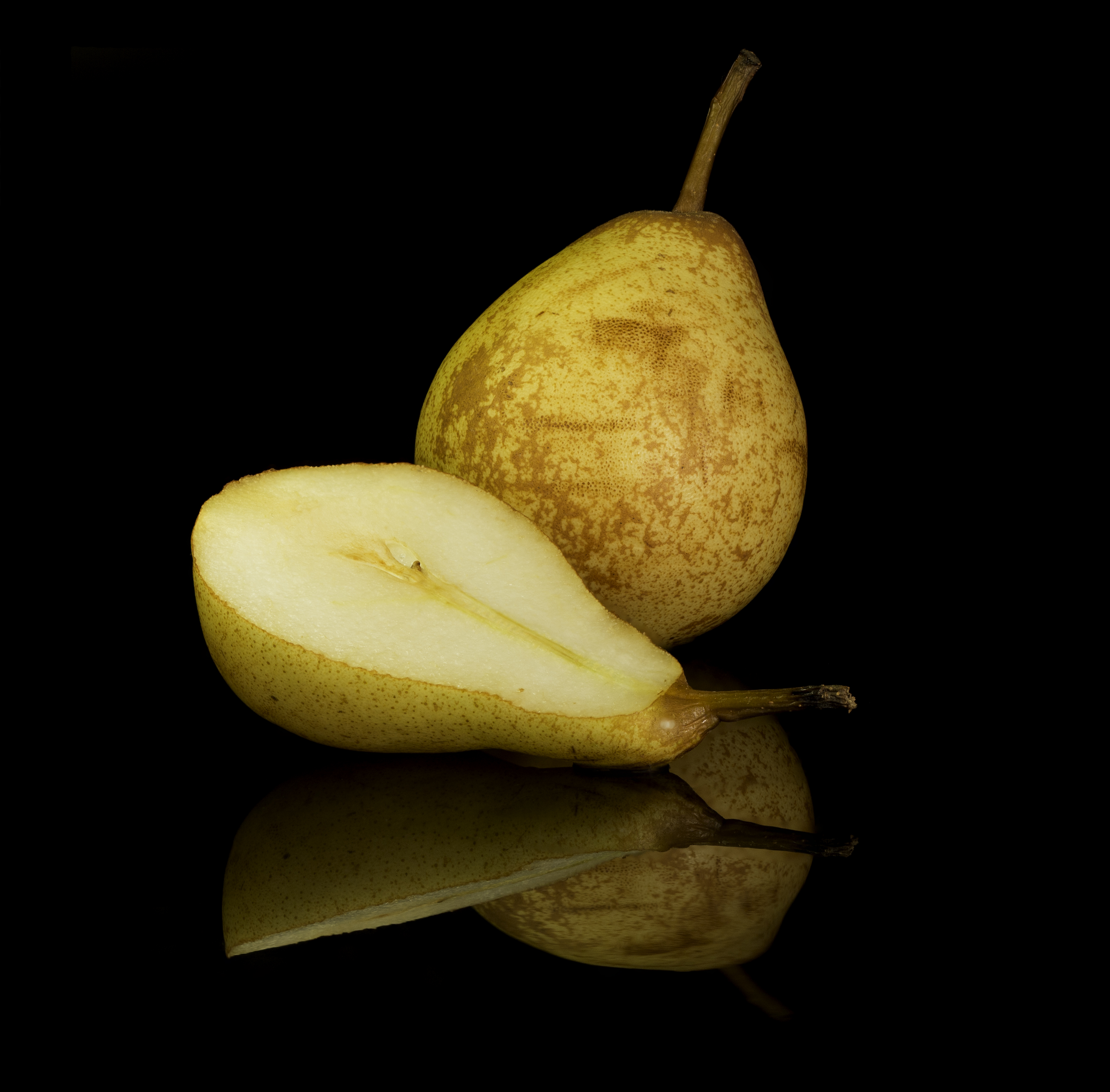 Pera rocha (Pyrus communis L.) in black background.